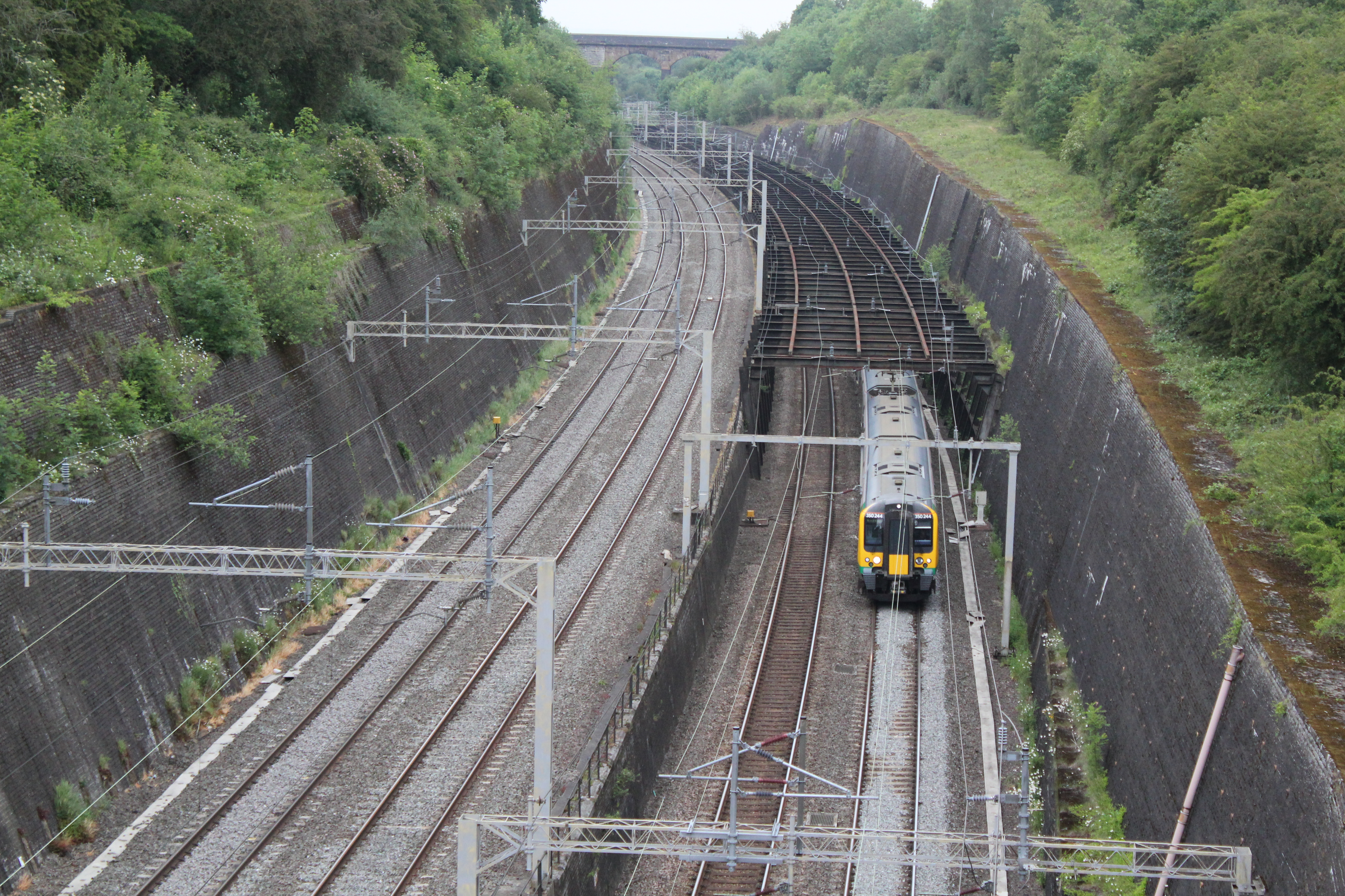 Southbound local train on the Northampton Loop of the West Coast Main Line at Roade, Northants, UK. The bridge in the distance is the road bridge between Blisworth and Courteenhall